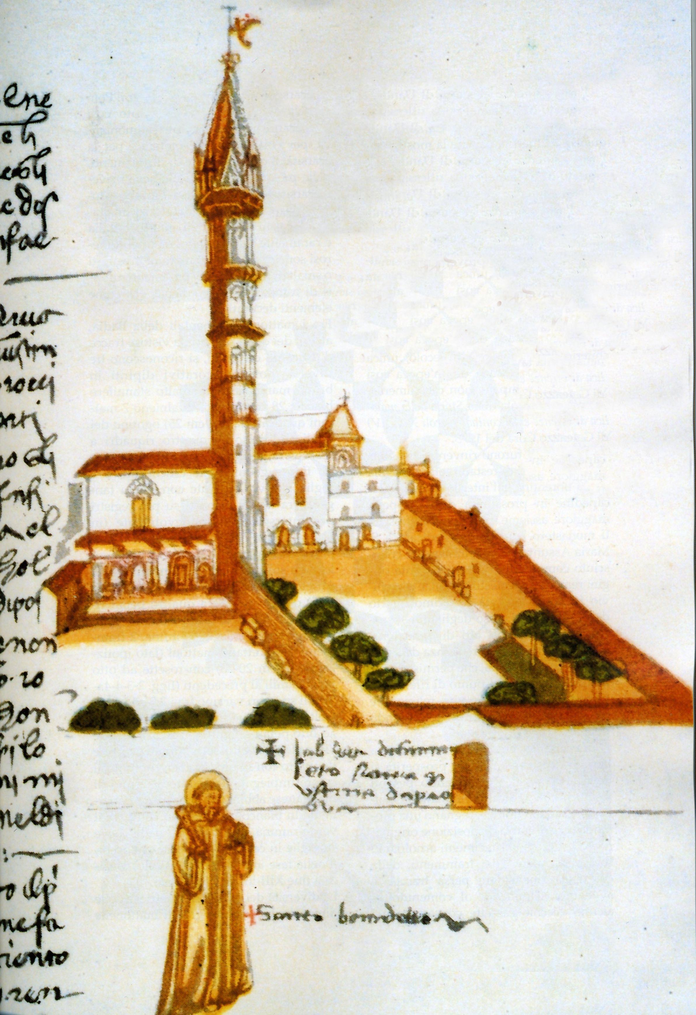 Depiction of the Badia Fiorentina from the Codice Rustici (illuminated manuscript)